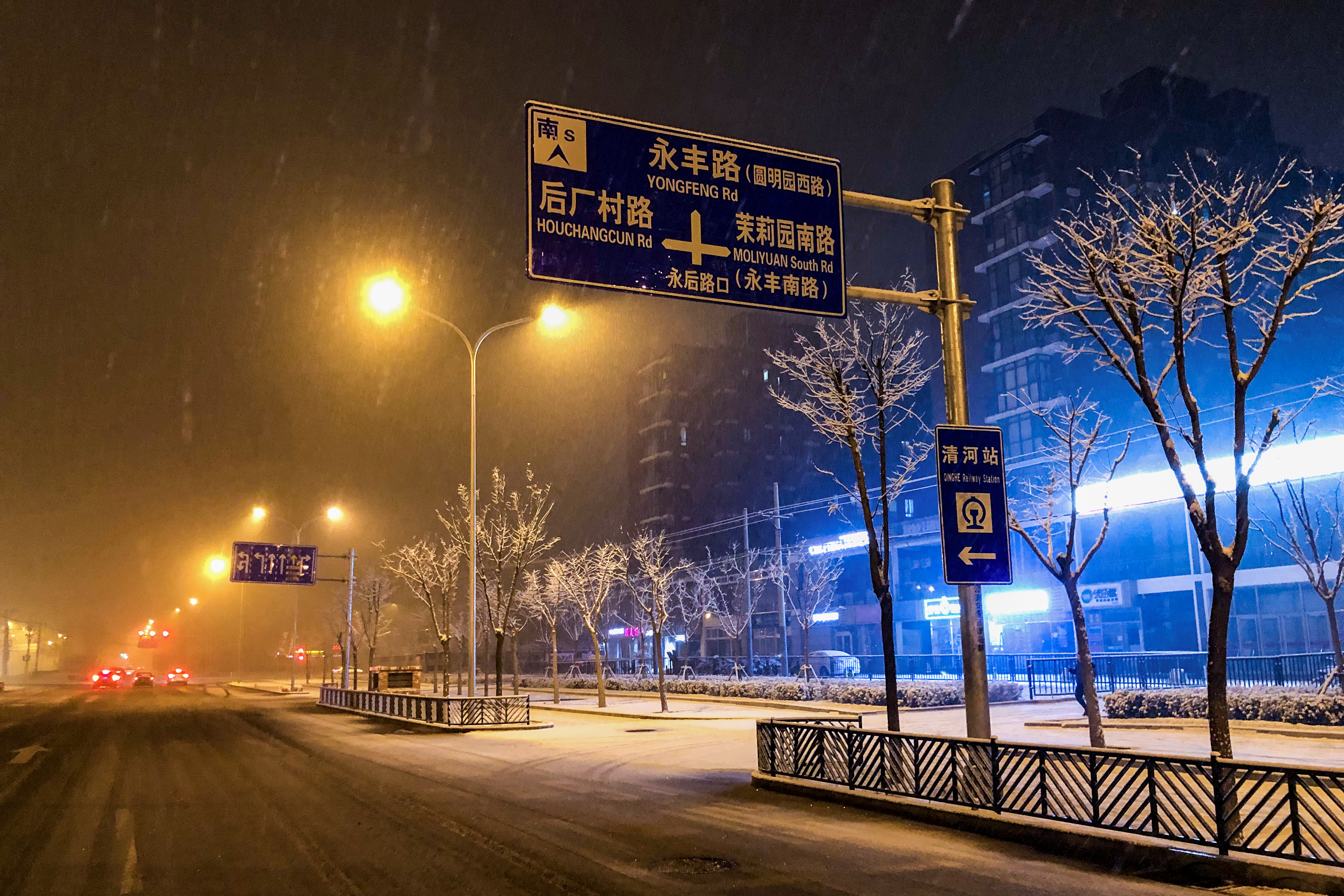 With an additional guidance sign to Qinghe Railway Station, where most trains to Inner Mongolia start from.